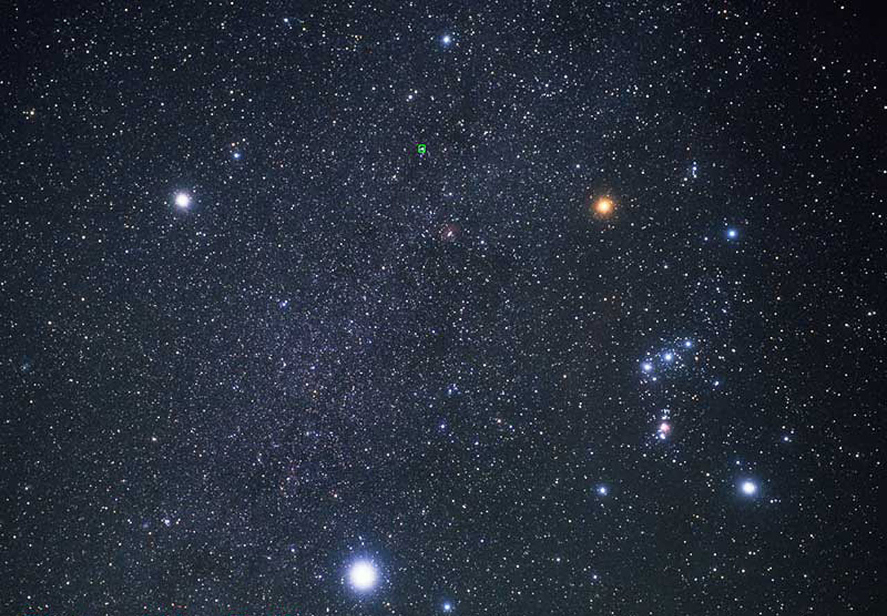 M 42, Monoceros, Orion, NGC 1976, Messier 42, Canis Major, Canis Minor, Cone Nebula, NGC 2264